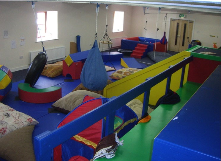 Clínica Terapia Ocupacional (TO) con un énfasis en Integración Sensorial (IS). Gustavo Reinoso, PhD, OTR/L